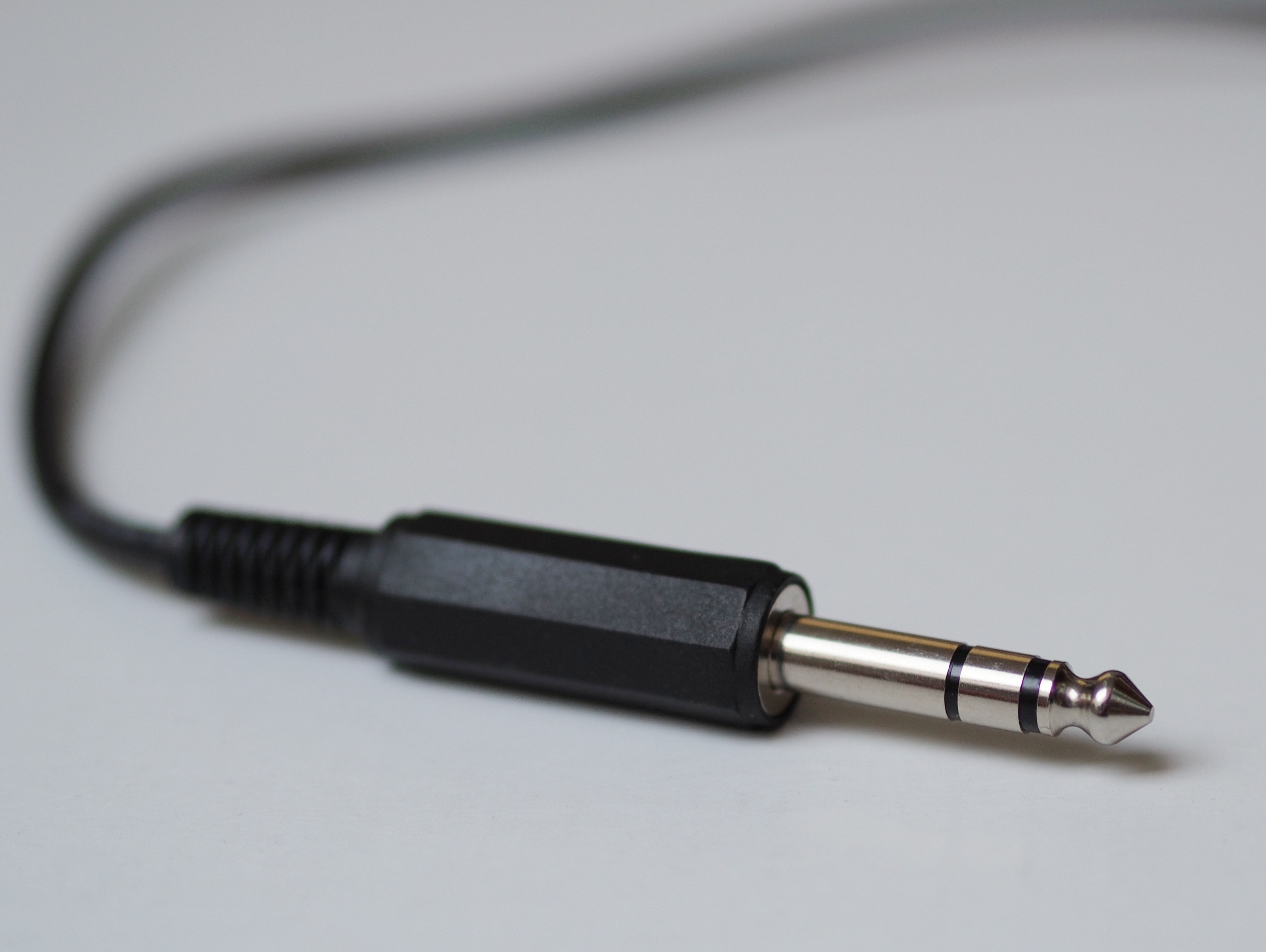 6.35 mm (¼”) jack plug, 3-pole, plastic housing